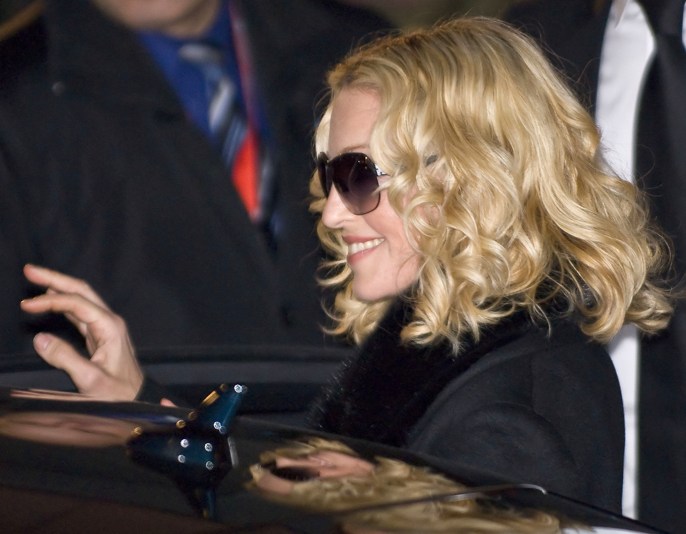 Madonna leaving the press conference for "Filth And Wisdom" at the Hyatt Hotel, Potsdamer Platz, Berlin